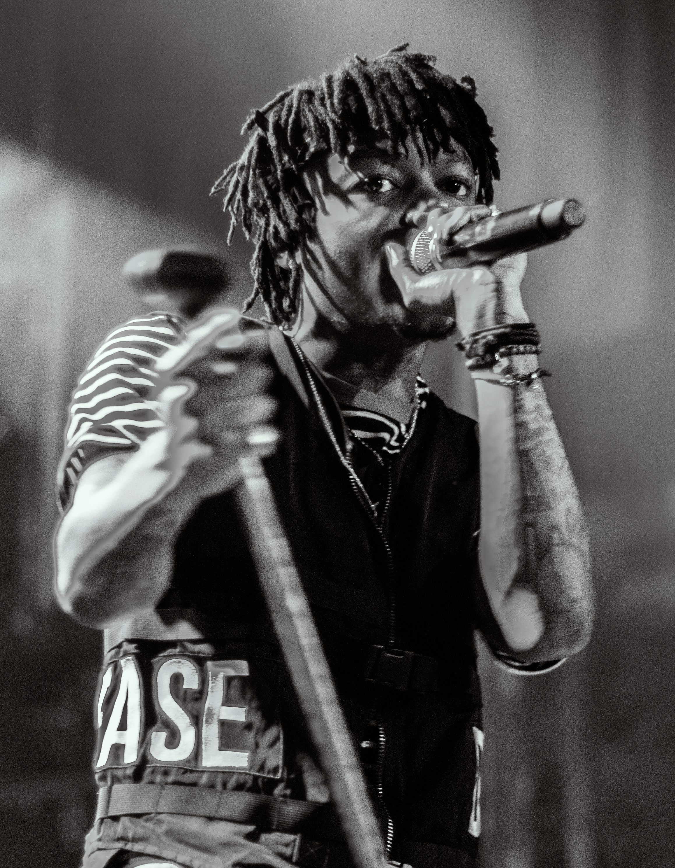 Goldlink live with support from J.I.D Shot at the Mod Club December 29th, 2017 Shot by Mac Downey (mac.all.mighty)